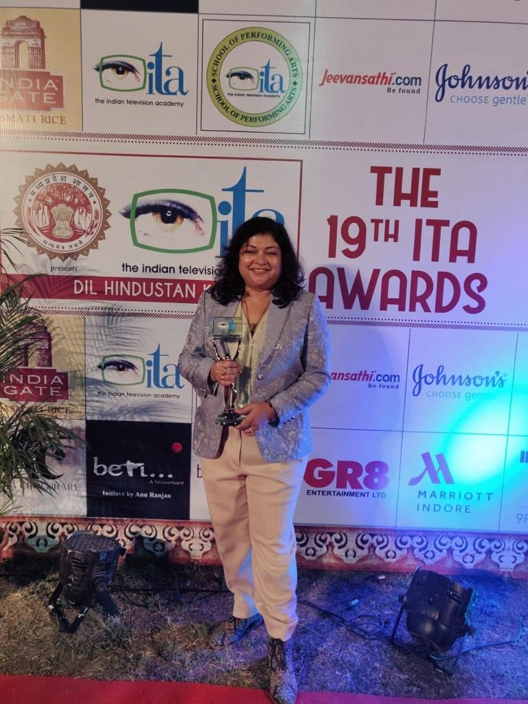 Mrinal Jha at ITA Awards